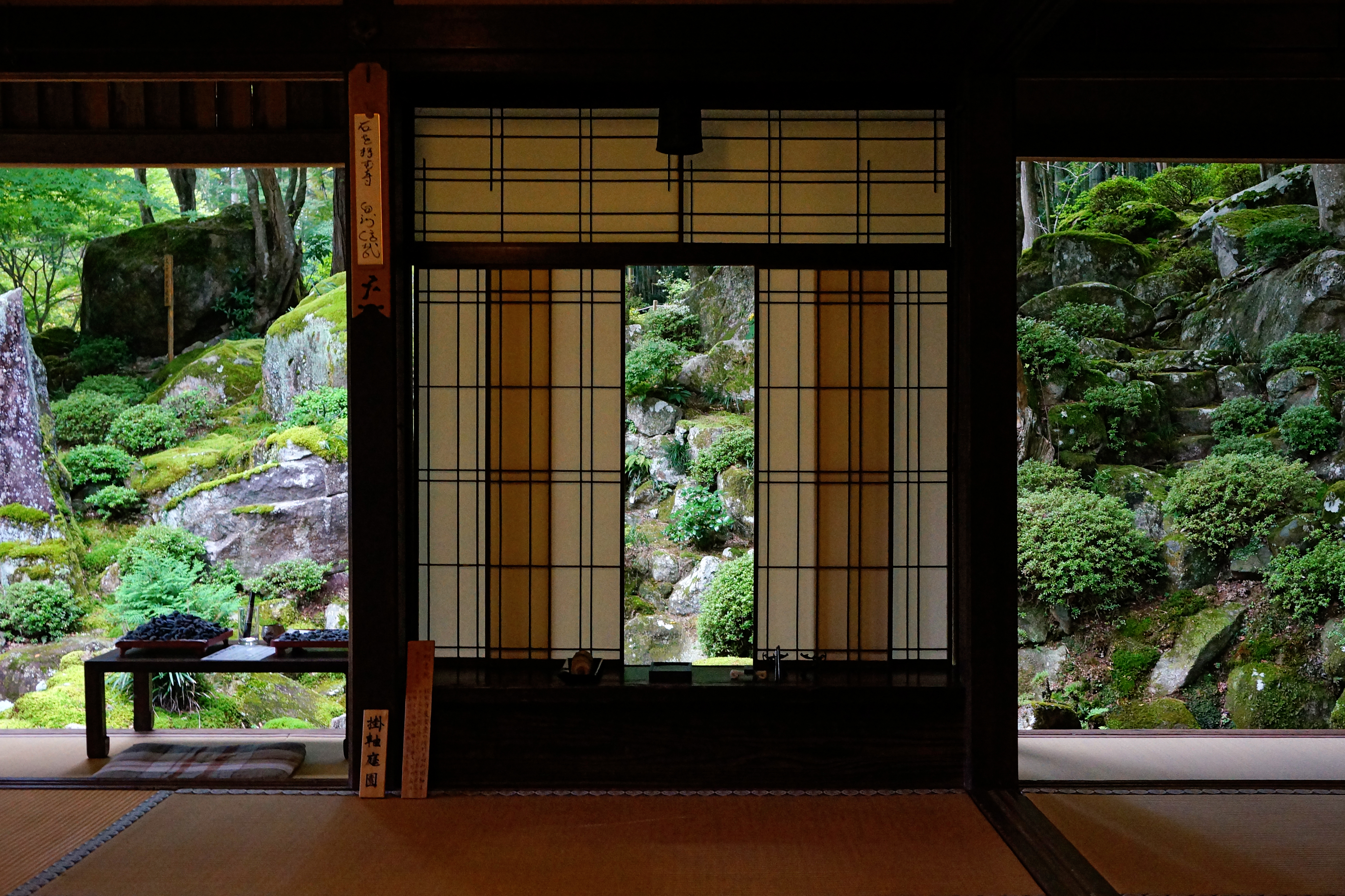 Kyorin-bo in Azuchi, Omihachiman, Shiga prefecture, Japan.